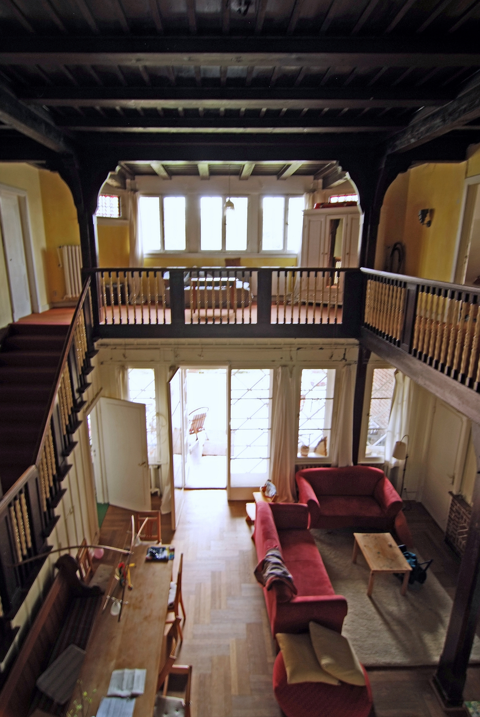 Cultural monument No. 911 in Hamburg, Germany